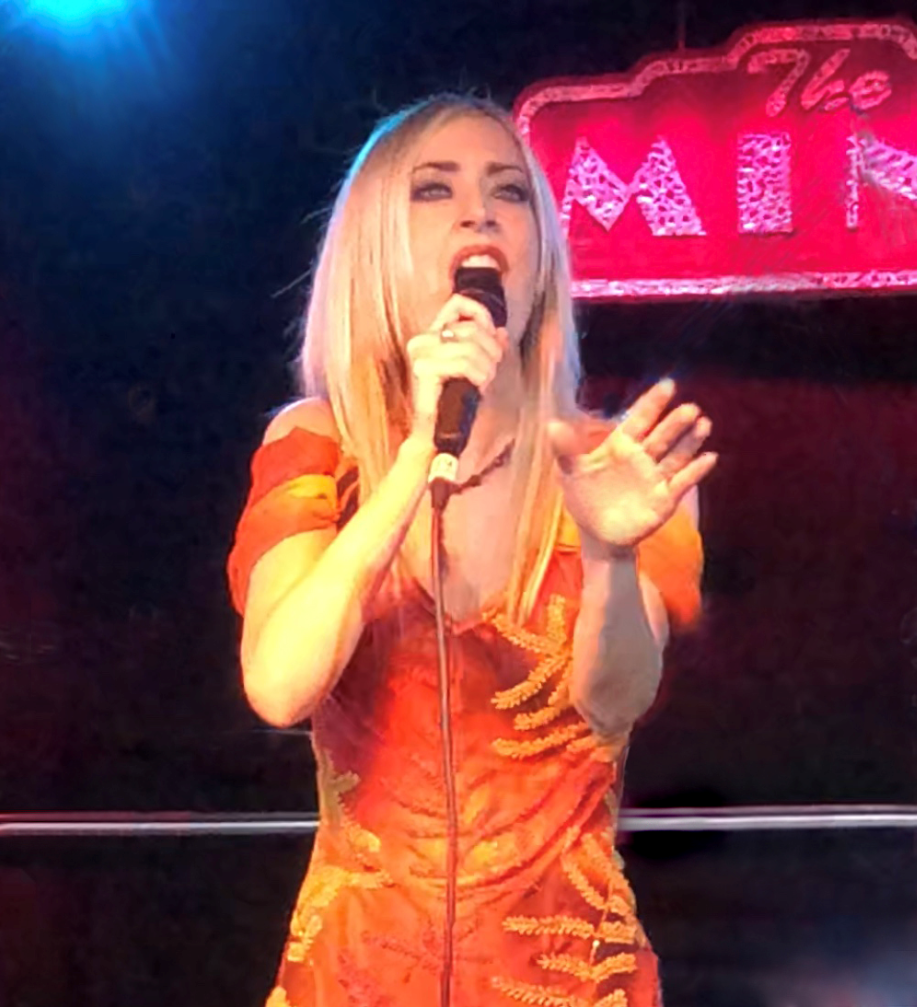 Maria Entraigues singing.